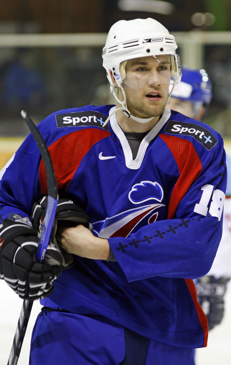 Luc Tardif Jr